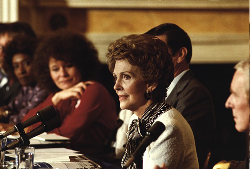 First Lady Nancy Reagan hosts a conference on drug abuse with first ladies from around the world.